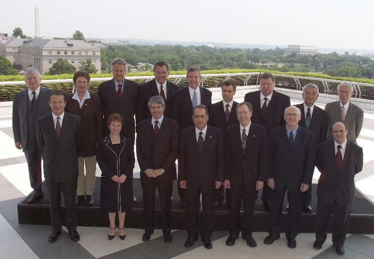 The members of the G8 Justice and Home Affairs Ministers meeting pose for photos in Washington, D.C. on May 11, 2004.